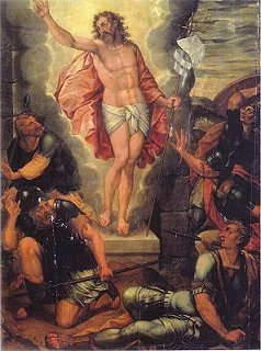 Resurrection of Christ, by Simon Pereyns. Part of the retablo mayor in the Church of San Miguel (Huejotzingo, Puebla, Mexico). The man depicted on the upper left could be a self-portrait.